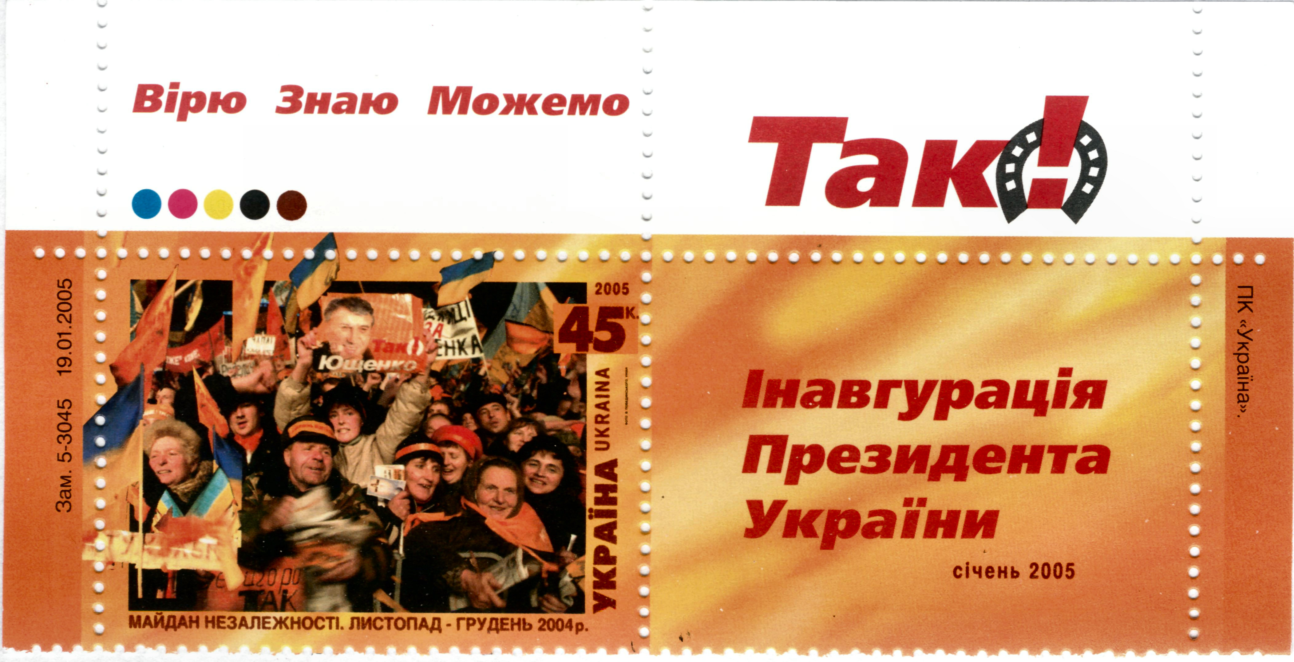 Yes! The stamp of Ukraine devoted to the inauguration of Viktor Yushchenko as President of Ukraine, January 2005, 25 kop. Photos: Maidan in Kyiv, November (after 26th) or December of 2004. The stamp was issued on 19 January 2005 (the inauguration itself was on January 23, 2005).